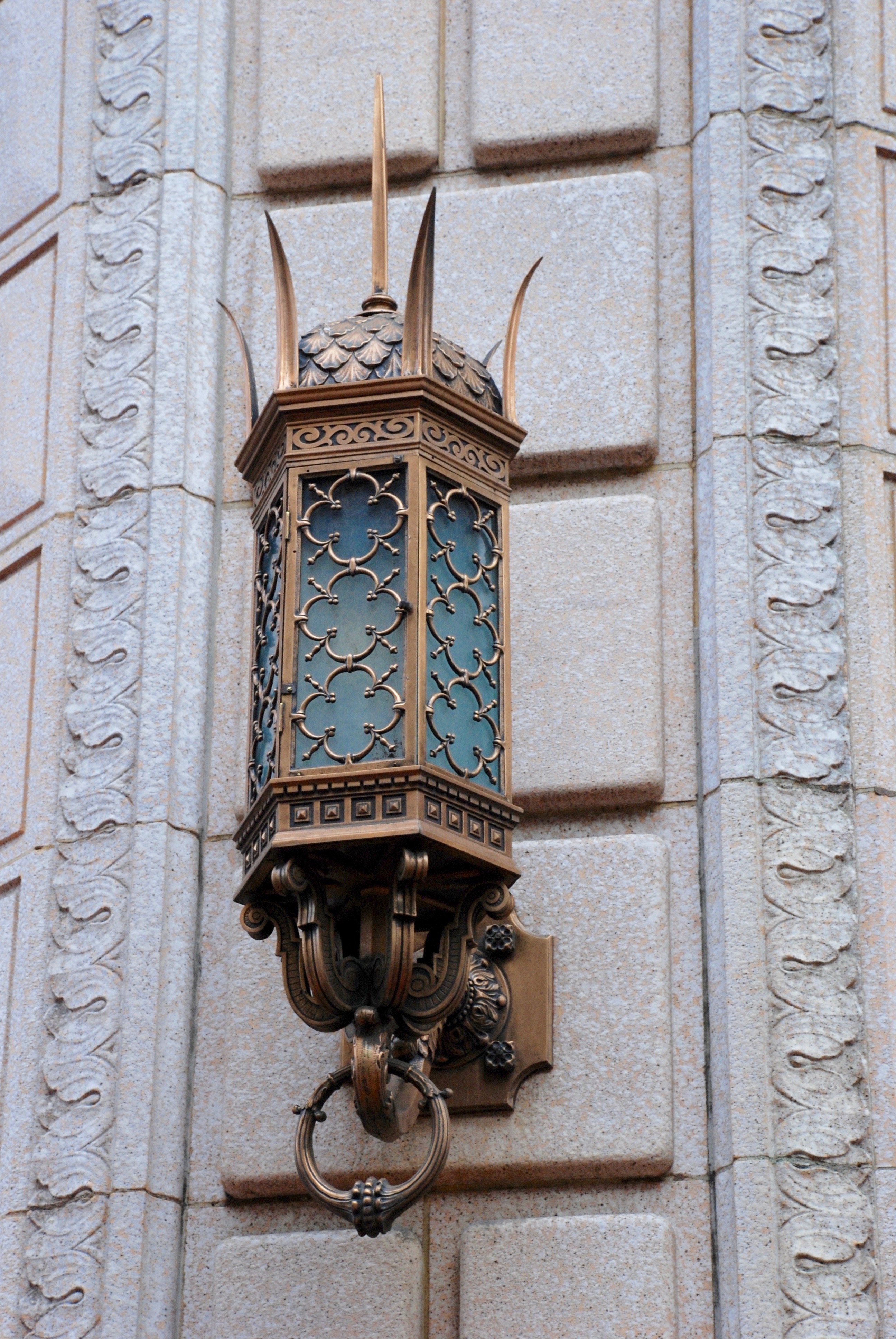 An ornamental bronze lantern affixed to the exterior of the Bank of California Building (built 1924–25), in Portland, Oregon.